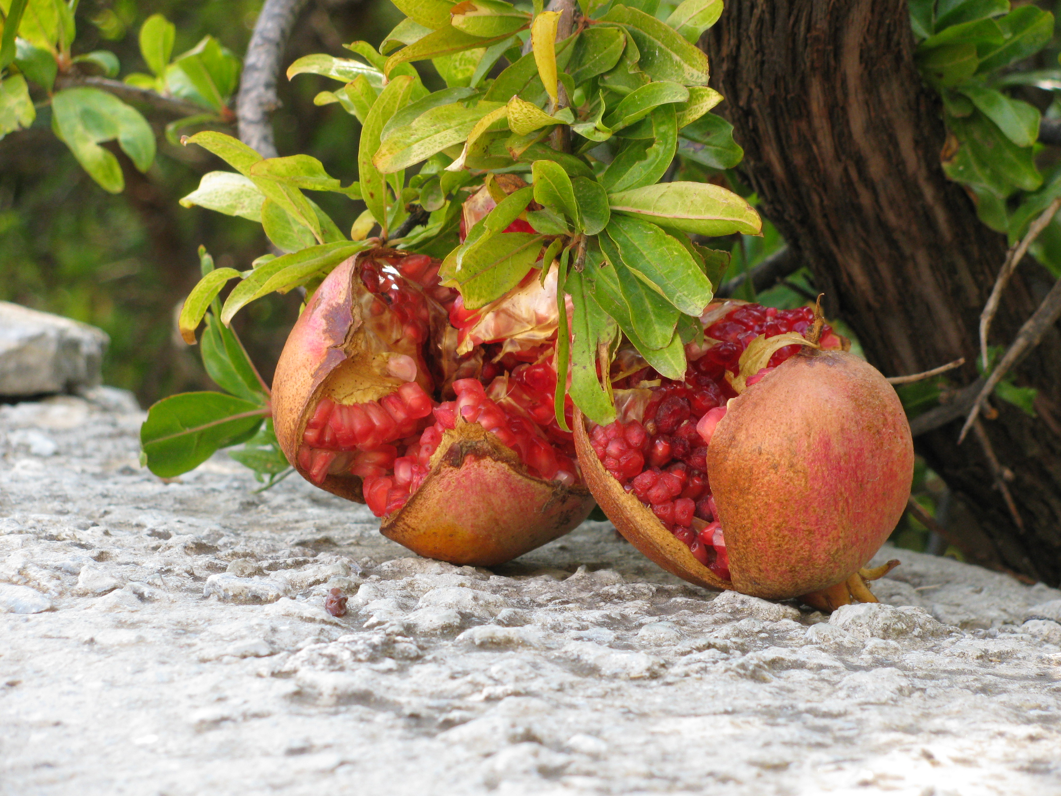 Pomegranates on a tree in Naxos, Greece